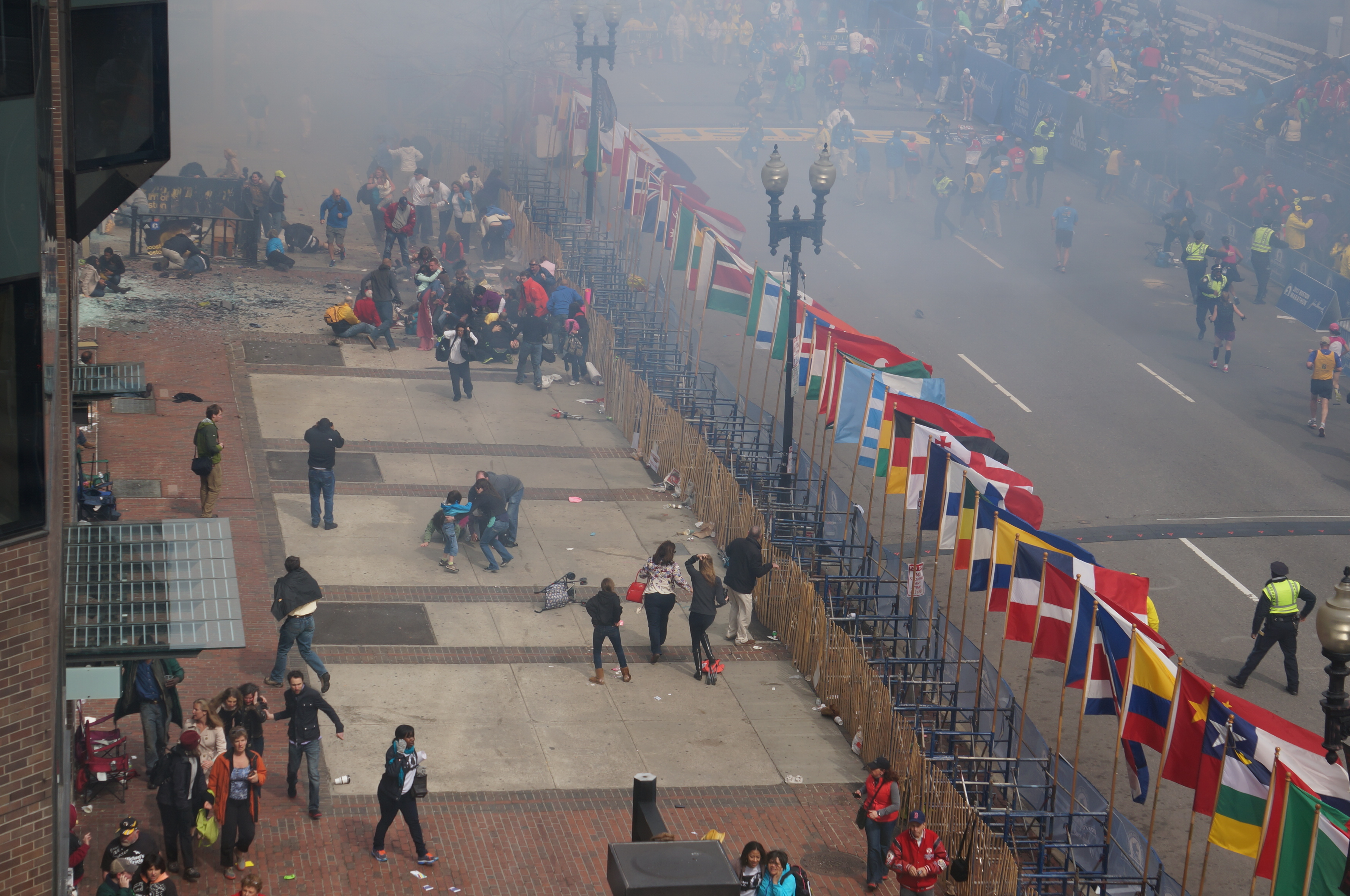 Shortly after Boston Marathon explosions on April 15, 2013.